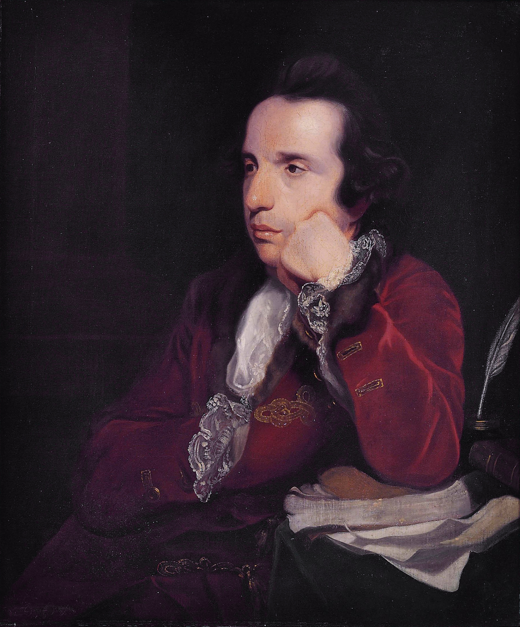 George Colman the Elder oil on canvas 76 x 63.5 cm